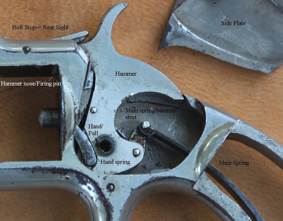 Lock of Smith and Wesson Model One Third variation Side Plate removed. the Mainspring is under tension from a screw in the low-front grip frame- as on modern S&W revolvers.